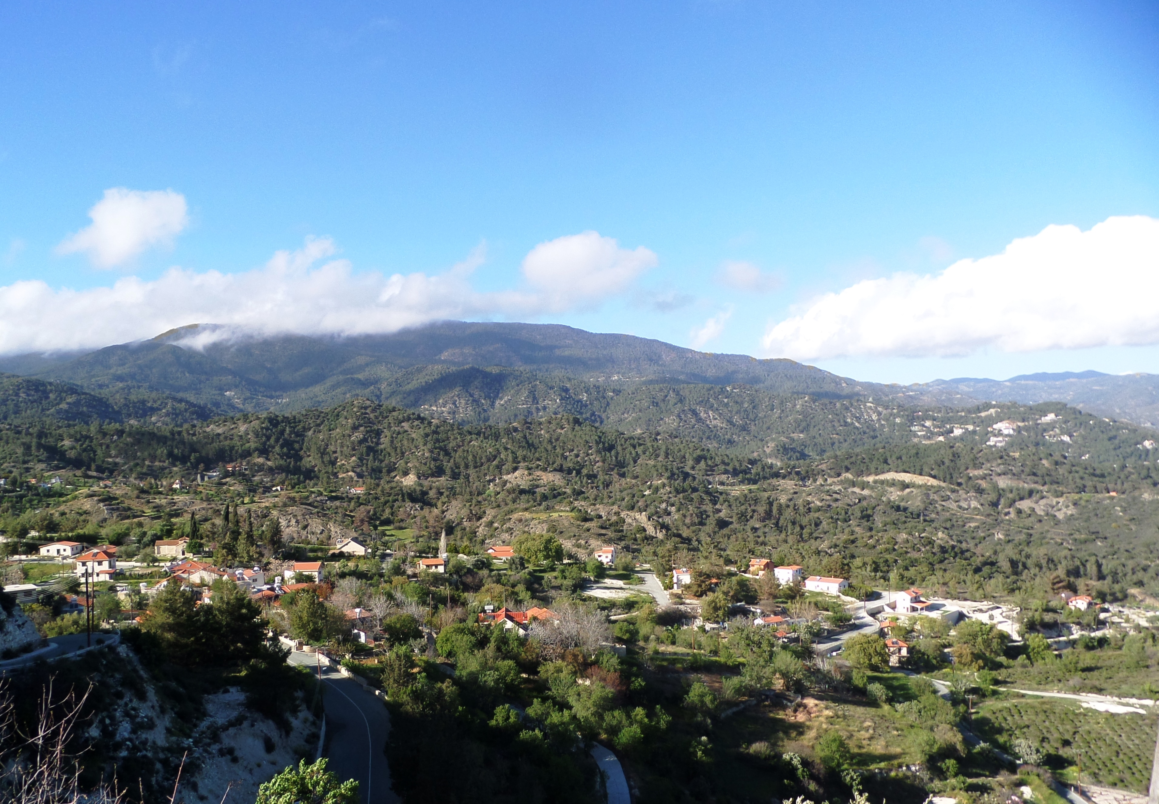 View of Kouka, Cyprus.